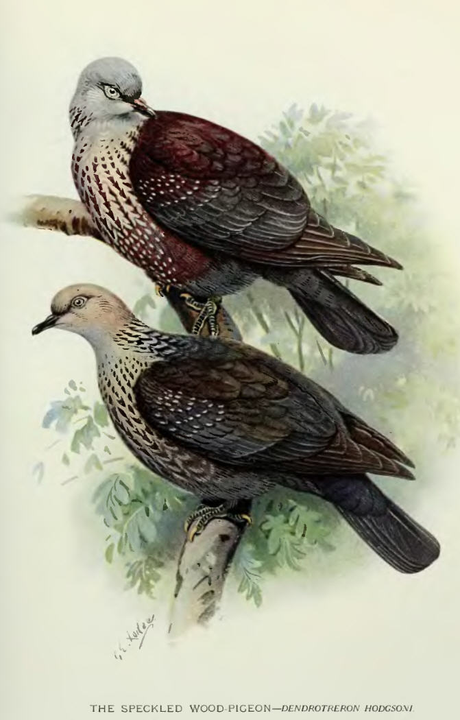 Columba hodgsonii, Speckled wood pigeon